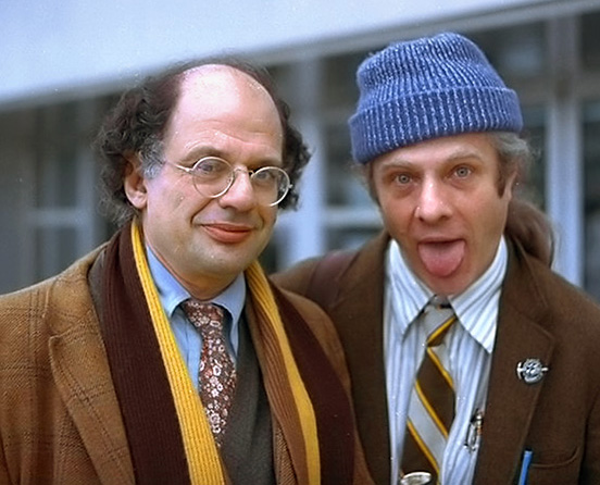 Allen Ginsberg with partner Peter Orlovski, Frankfurt Airport, 1978.